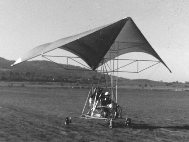 Early Ultralight trike designed & by Pierre Aubert -Swiss inventor- in 1964.